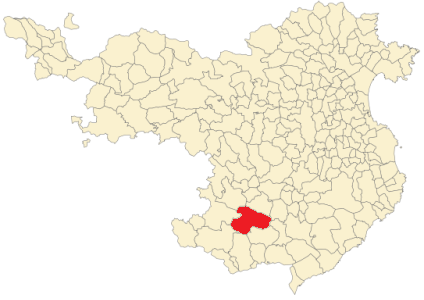 Santa Coloma de Farnés